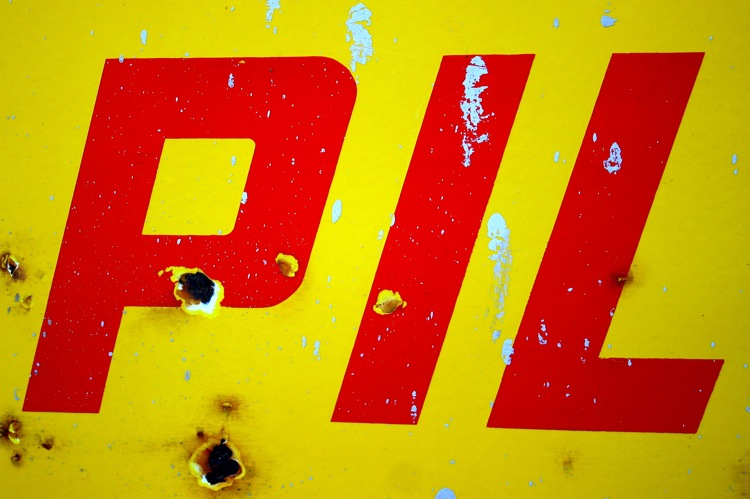 This old sign made me all nostalgic for John Lydon's post Sex Pistols sonic experiments.